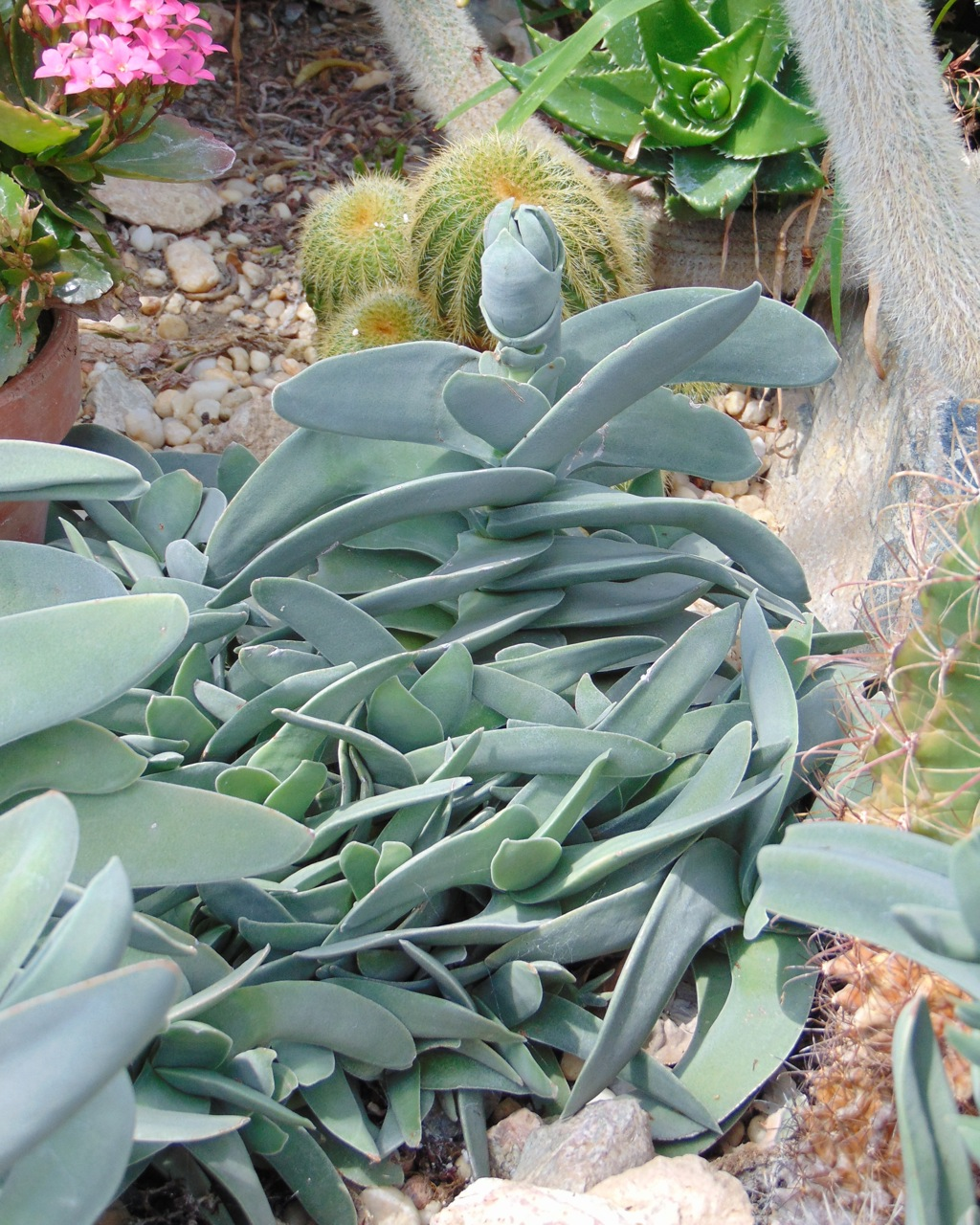 Crassula perfoliata Please respect author's moral rights by not changing this description or the image title.